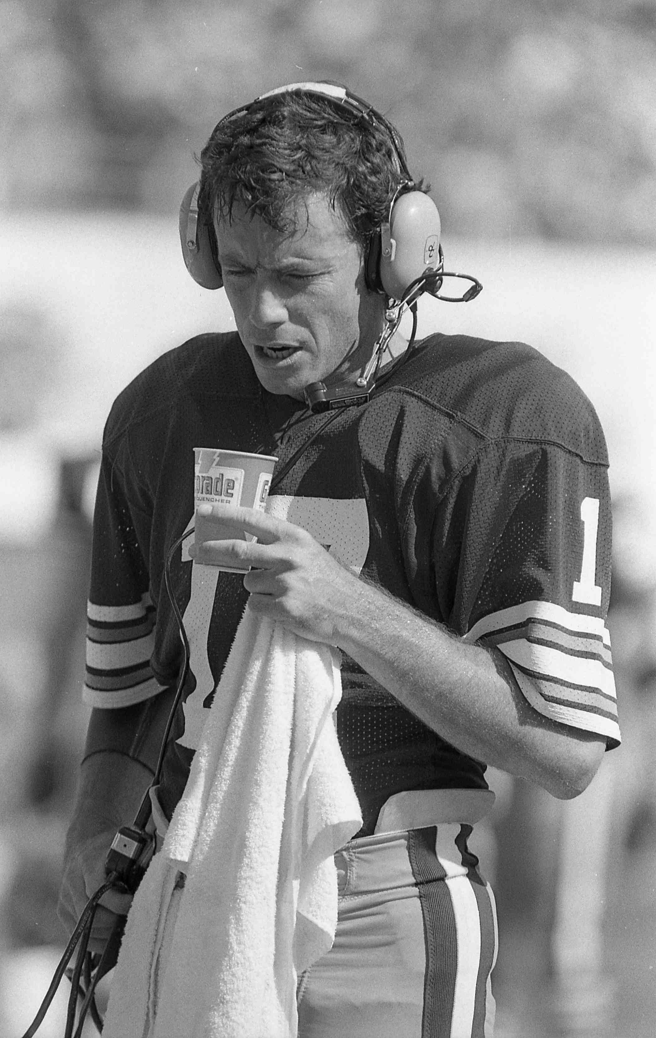 Brian Sipe on the sidelines during a Cleveland Browns game circa 1979. Taken by teammate and photographer Jerry Sherk. Please message me if you have any questions about this file. Thanks!